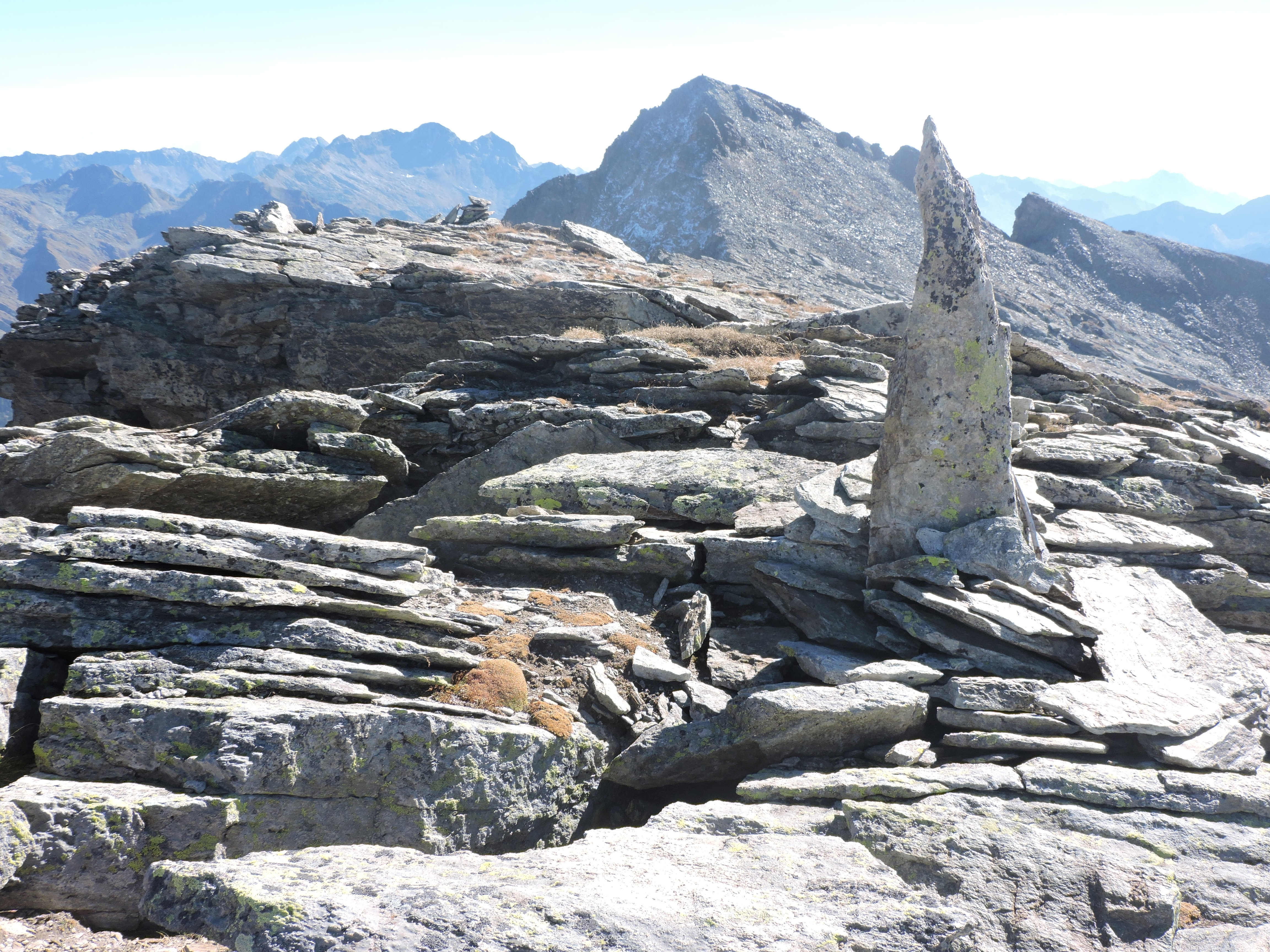 Gran Cima (Pennine Alps, Italy)